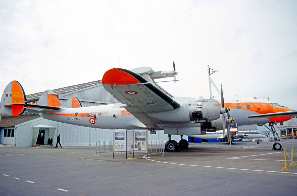 Lockheed L-749A Constellation F-ZVMV of "Centre d'Essais en Vol" with test mounted Bastan turboprop engine. Paris Le Bourget. 1977.